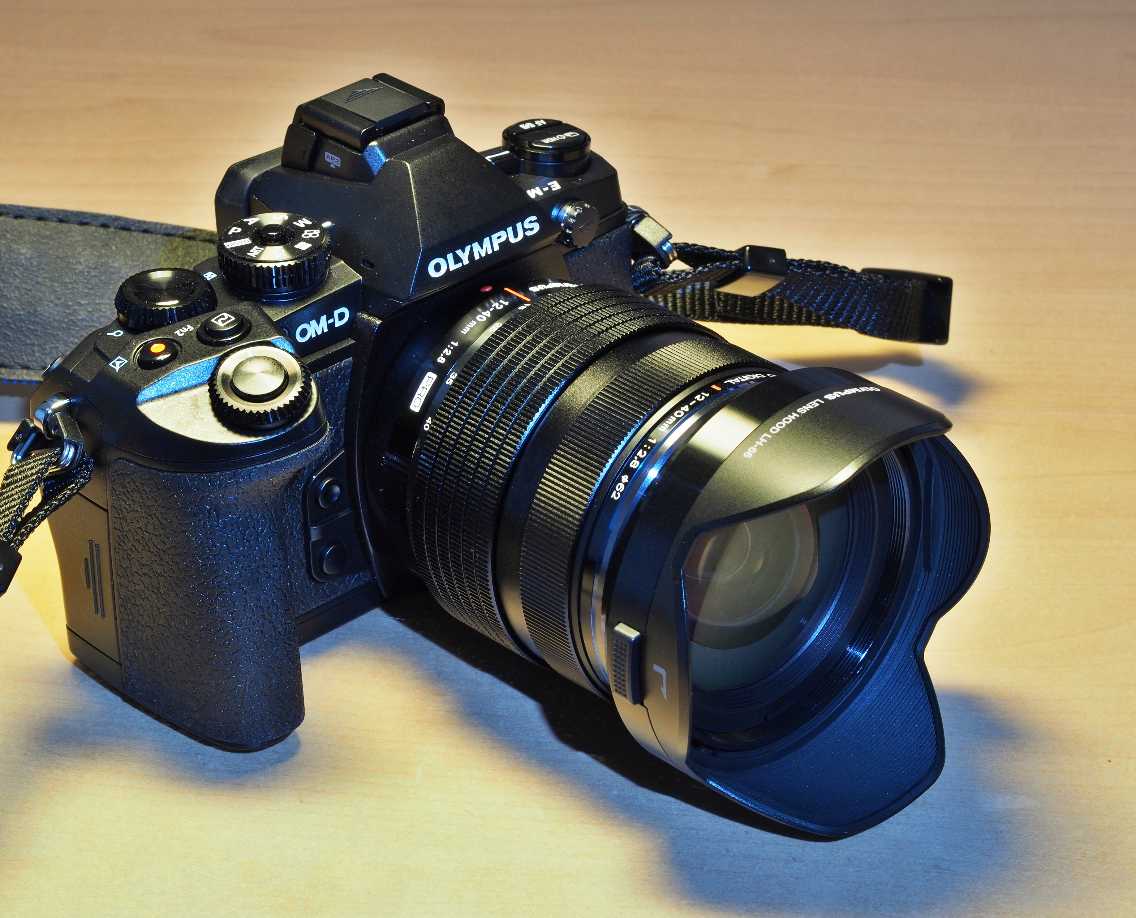 Olympus OM-D E-M1 & kit zoom lens M.Zuiko 12–40 f/2.8 PRO